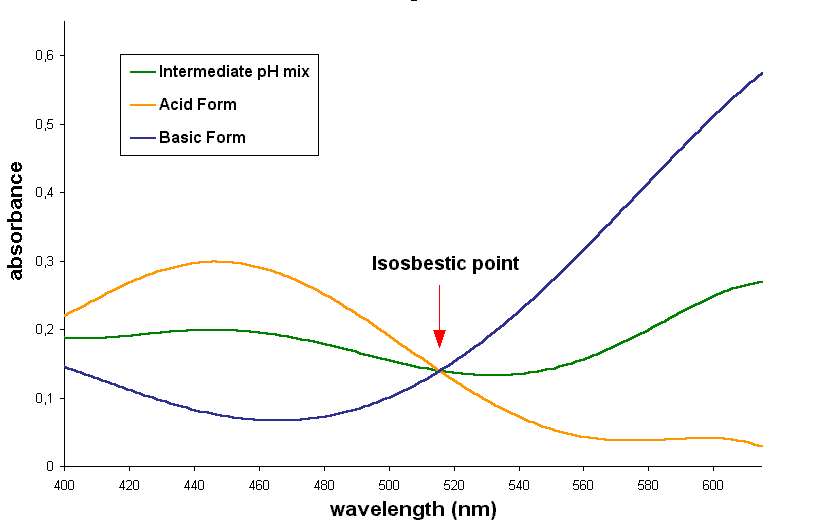 Bromocresol green spectrum, at three different pH values (acid, alkaline, and intermediate pH = 4.7 )